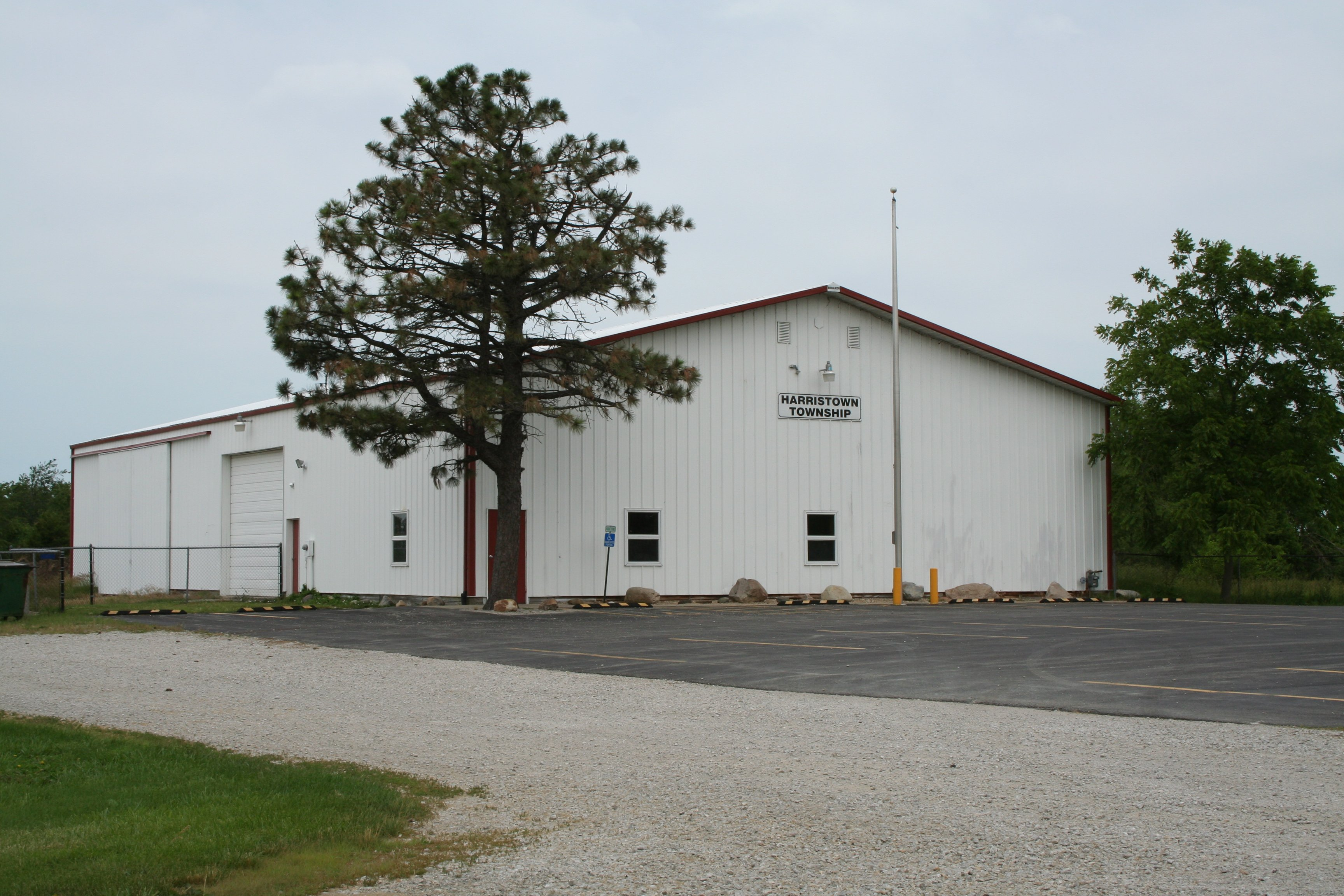 Harristown_Illinois_Township_Building